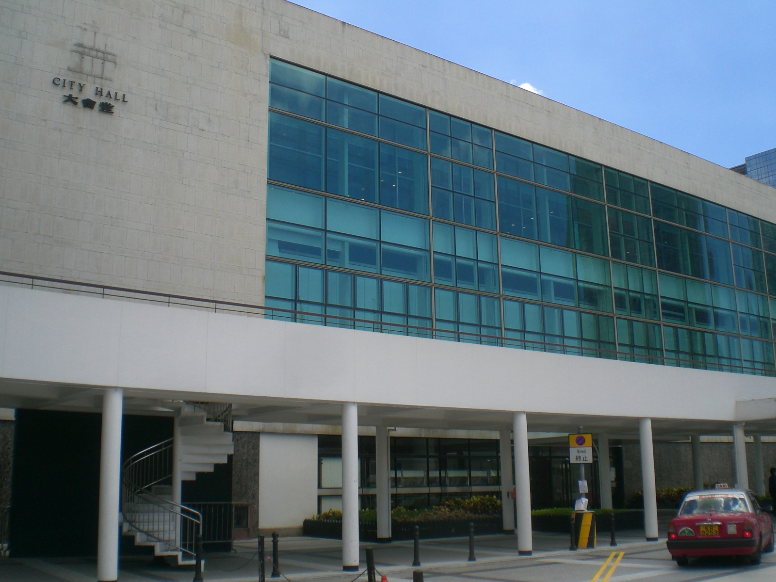 中環zh:愛丁堡廣場香港大會堂低座